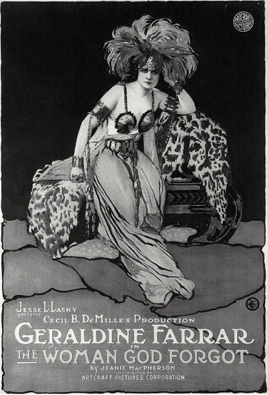 Geraldine Farrar as Montezuma's Daughter in The Woman God Forgot - poster